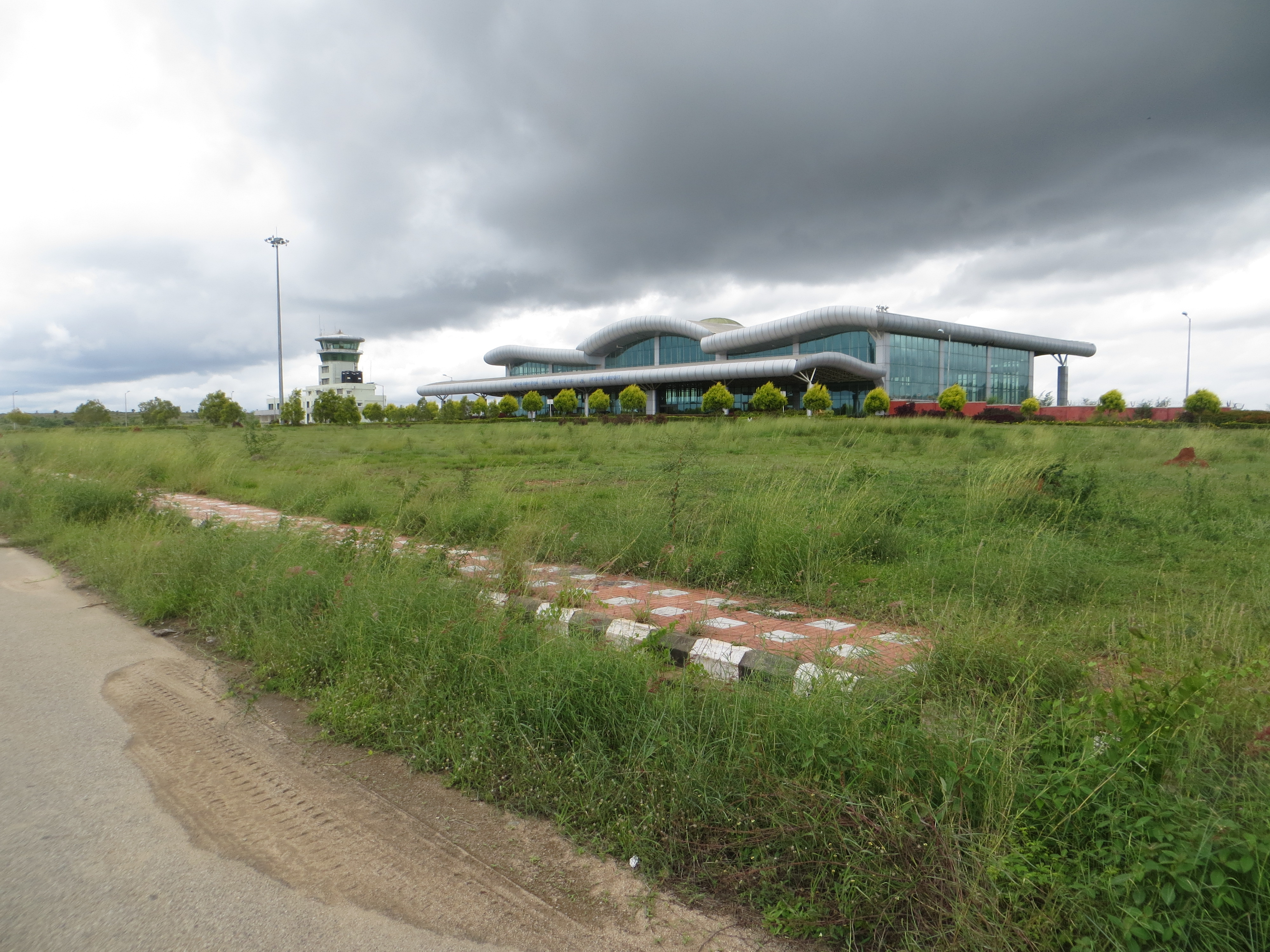 Terminal and ATC tower at Mysore Airport, India